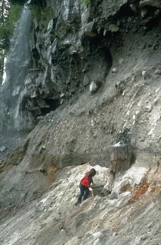 A geologist next to a tree trunk that was buried by ash-fall deposits from the Bridge River eruption of the Mount Meager massif about 2350 years ago, and then overrun by a pyroclastic flow. Its deposit has an unwelded base and a darker, more massive welded layer seen at the top of this photo.